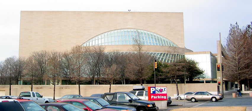 Morton H. Meyerson Symphony Center, Dalla, Texas, USA